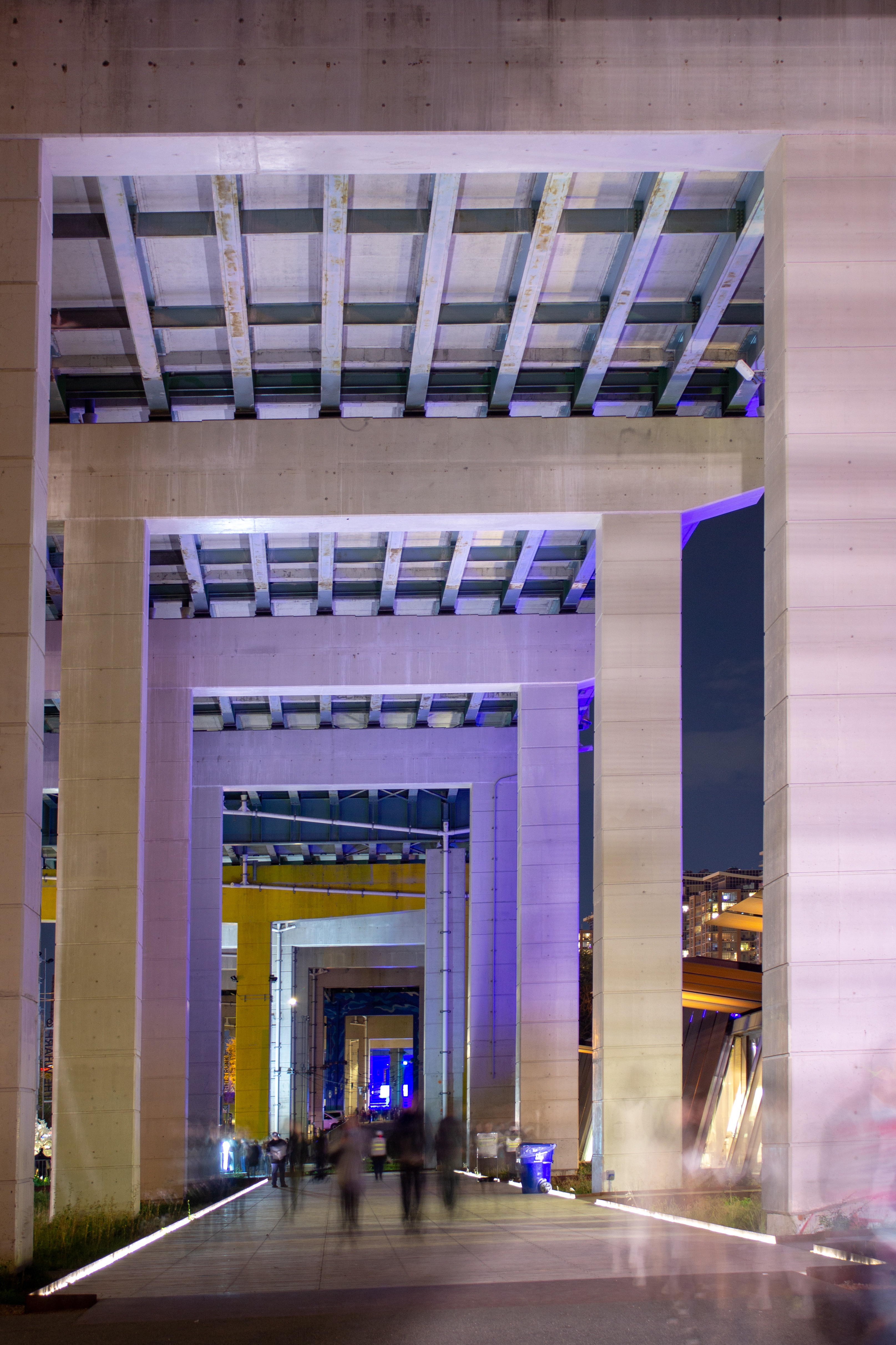 Under the Gardiner Expressway, in The Bentway, a public space in Toronto near the Fort York National Historic Site. During the 2019 edition of Nuit Blanche Toronto, there were two installations in The Bentway and several others in the surrounding area.